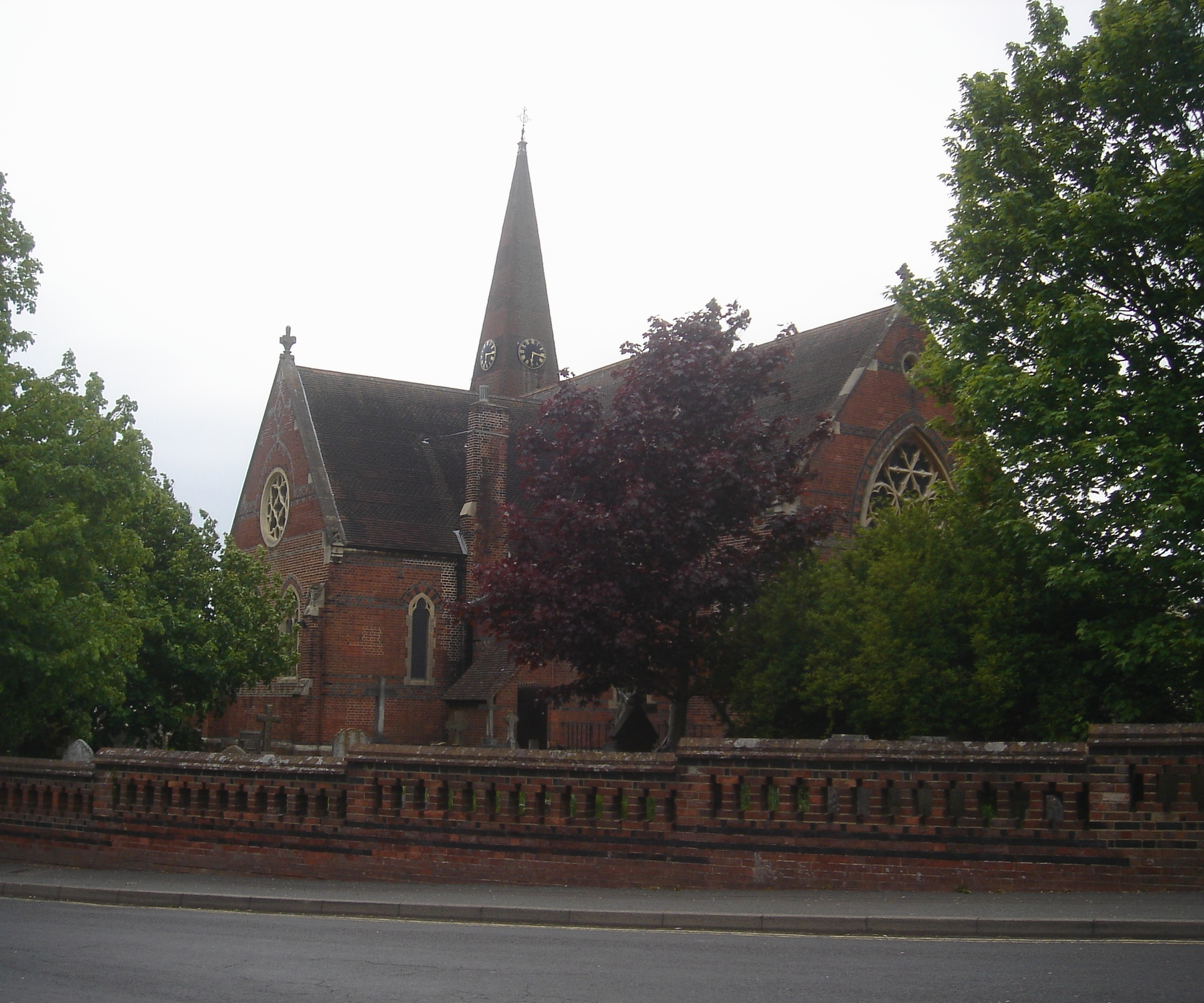 St John the Evangelist's Church, Church Road, Burgess Hill, District of Mid Sussex, West Sussex, England. This view was taken from the southeast corner. listed at Grade II* by English Heritage (IoE Code 302096)